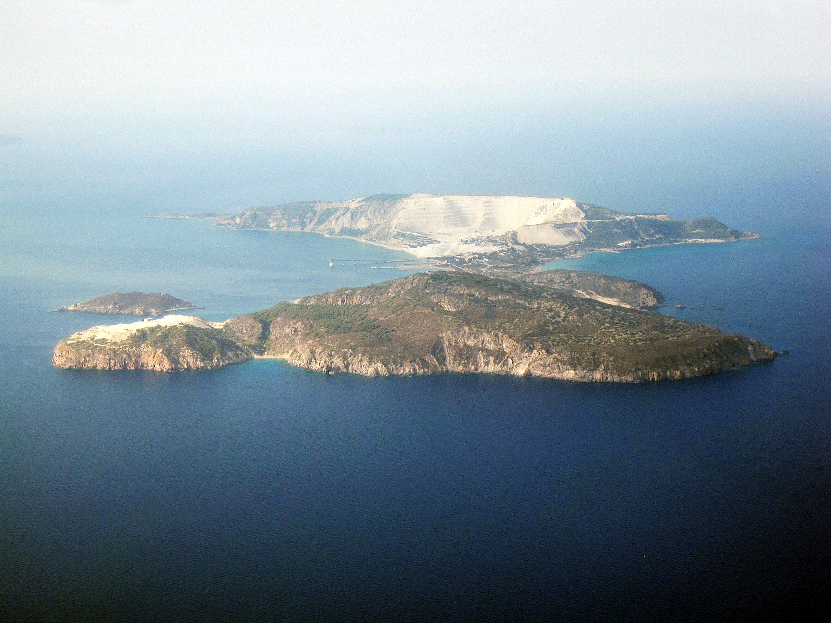 Gyali from the air, Gyali, Greece